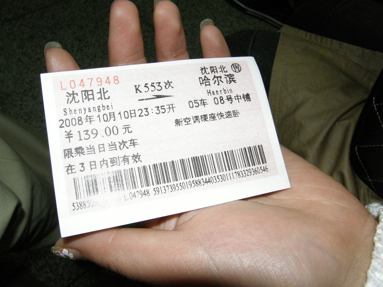 Ticket of railway in China